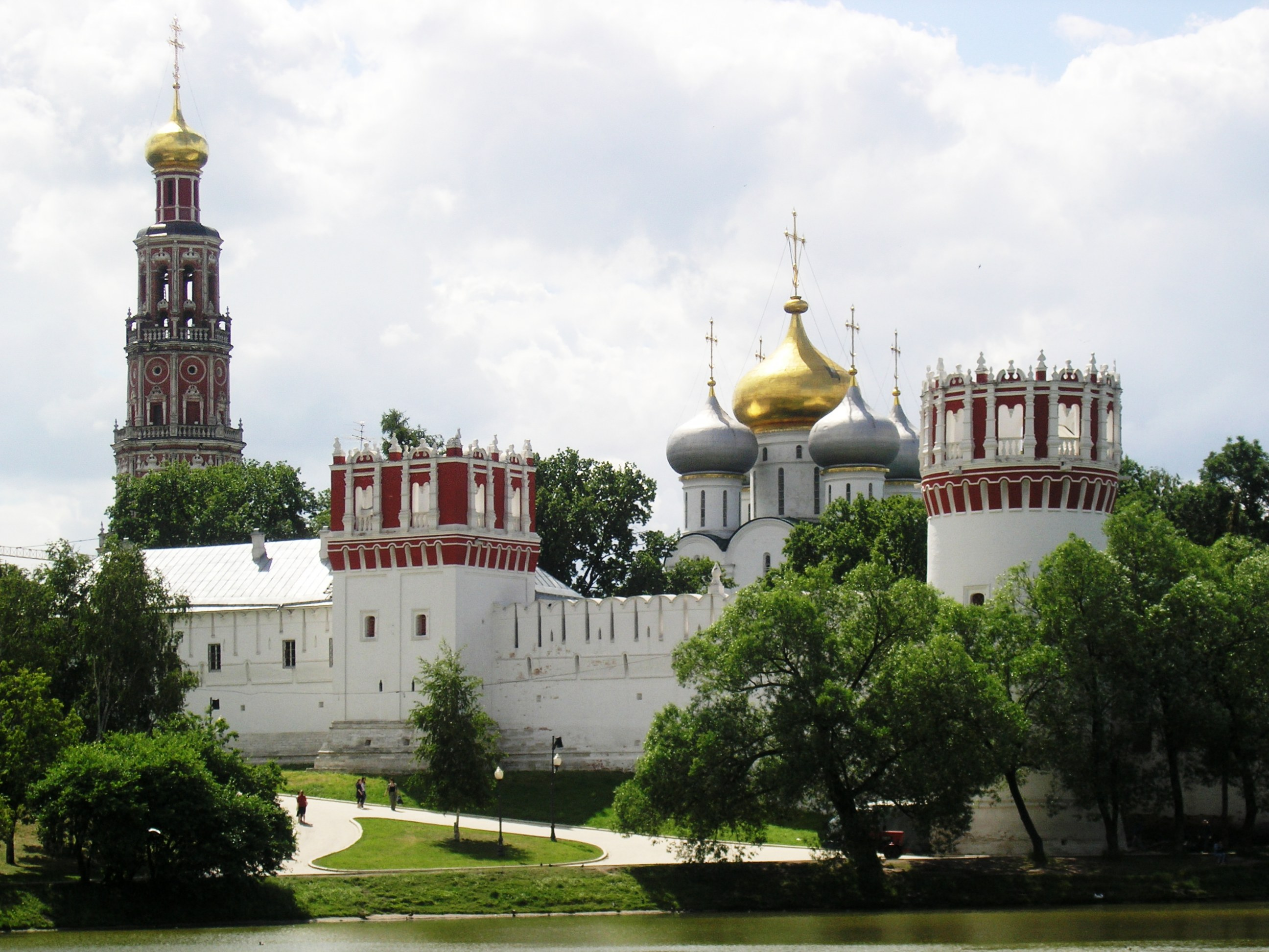 Novodevichy convent. The church outside the left image border was in scaffolds.